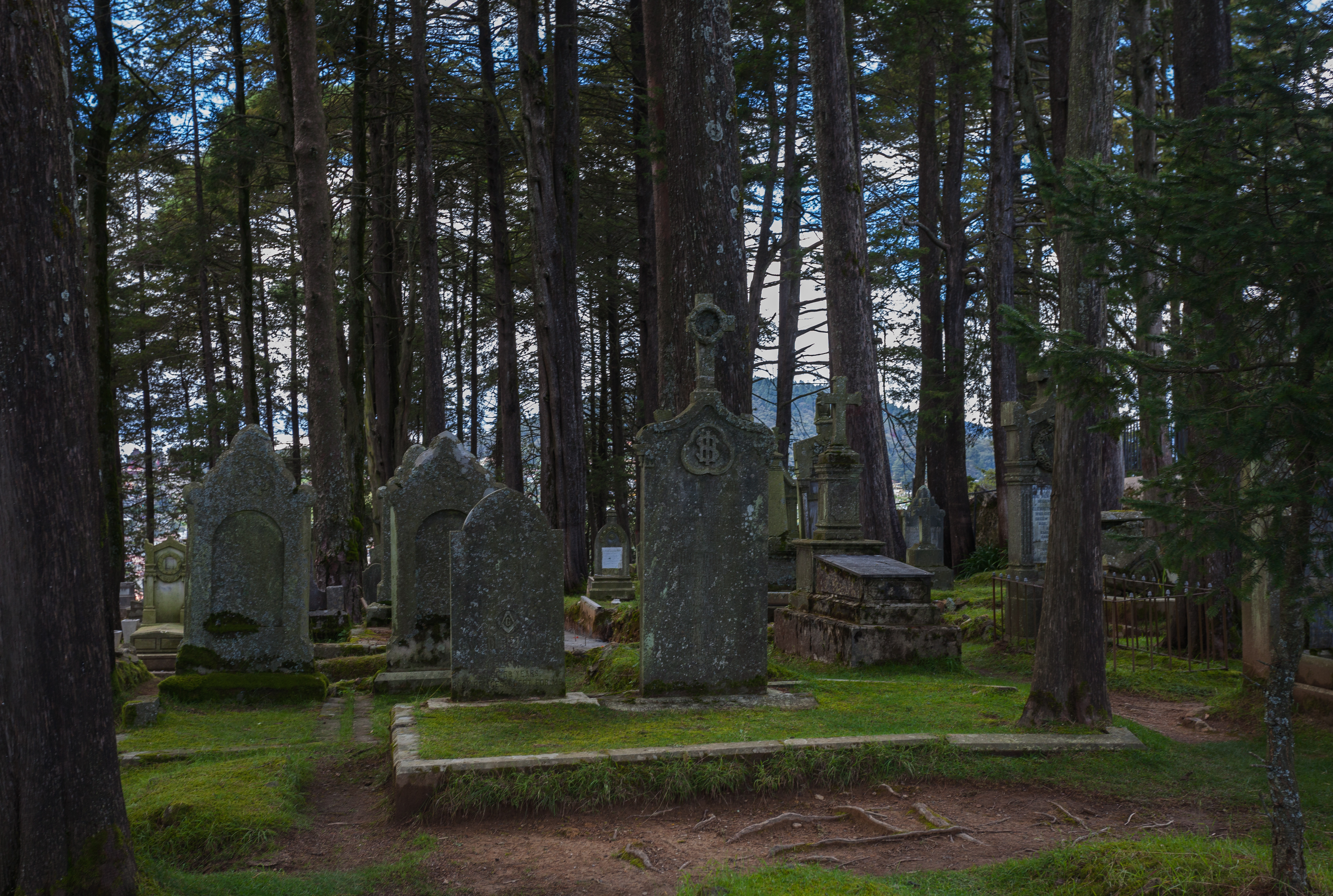 English Pantheon, Real del Monte, Hidalgo, Mexico